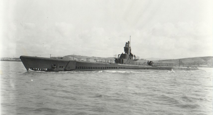 USS_Spadefish; Spadefish (SS-411), port side view, off Mare Island Navy Yard, 11 May 1944. US Navy photo courtesy of John Hummel.